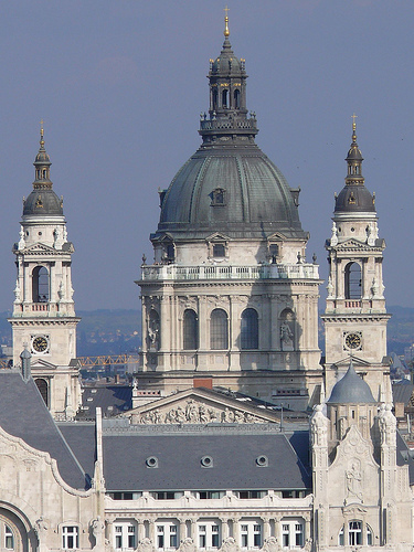 The Saint Stephen's Basilica in Budapest